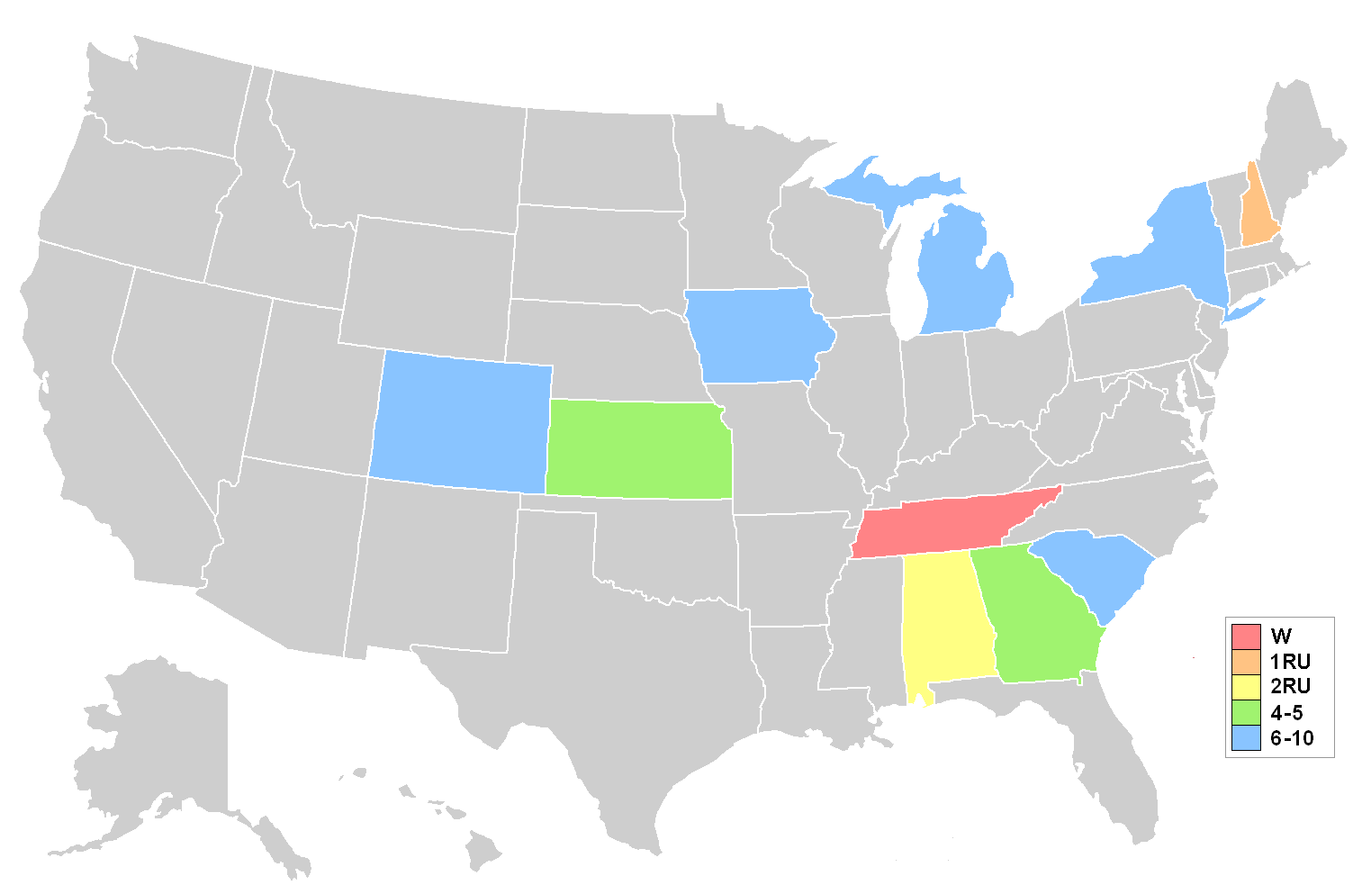 Map showing placements at the Miss USA 2000 pageant. Key on graphic shows colour coding for break down of placements.